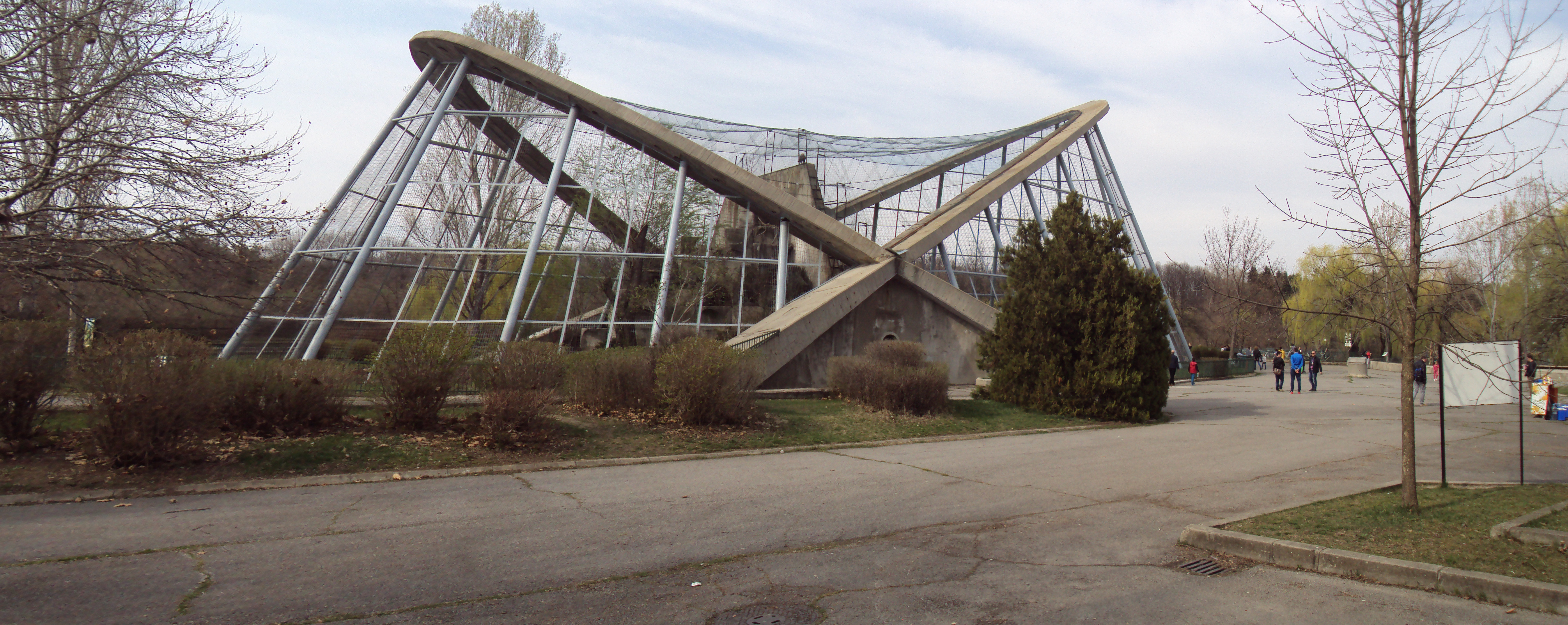 Sofia Zoo